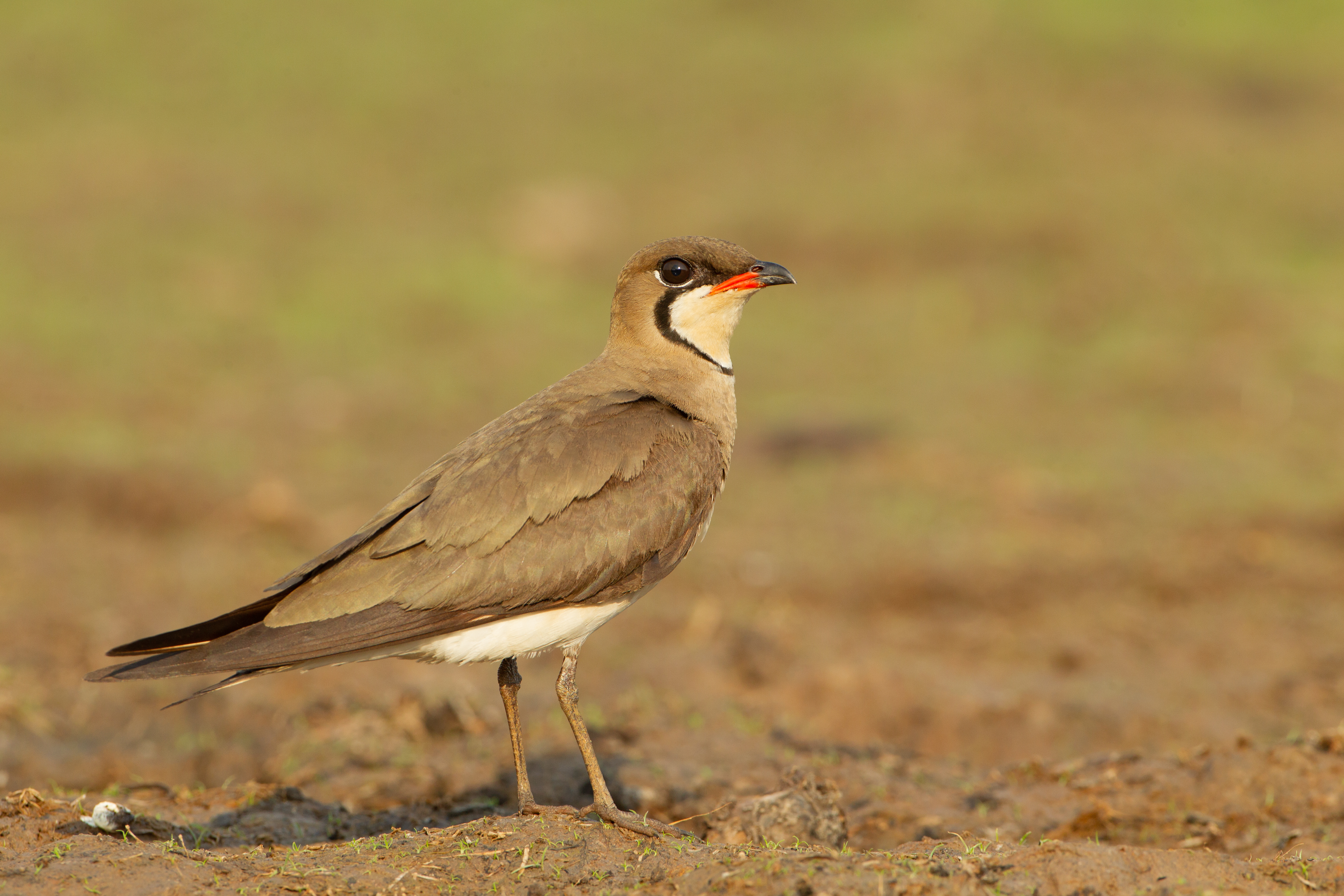 Oriental Pratincole (Glareola maldivarum), Beung Borapet, Nahkon Sawan, Thailand